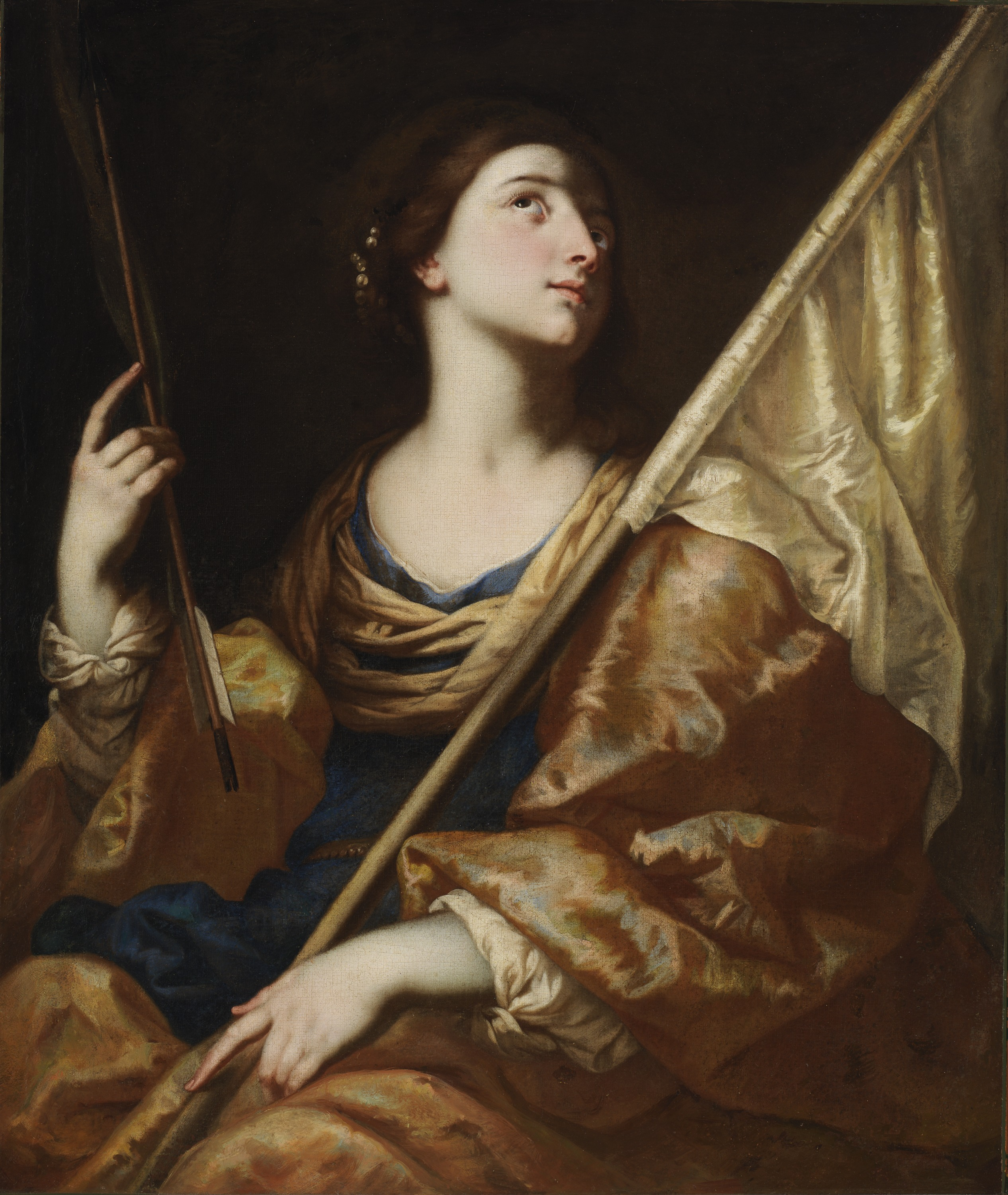 Saint Ursula, ca. 1650, oil on canvas, Italy